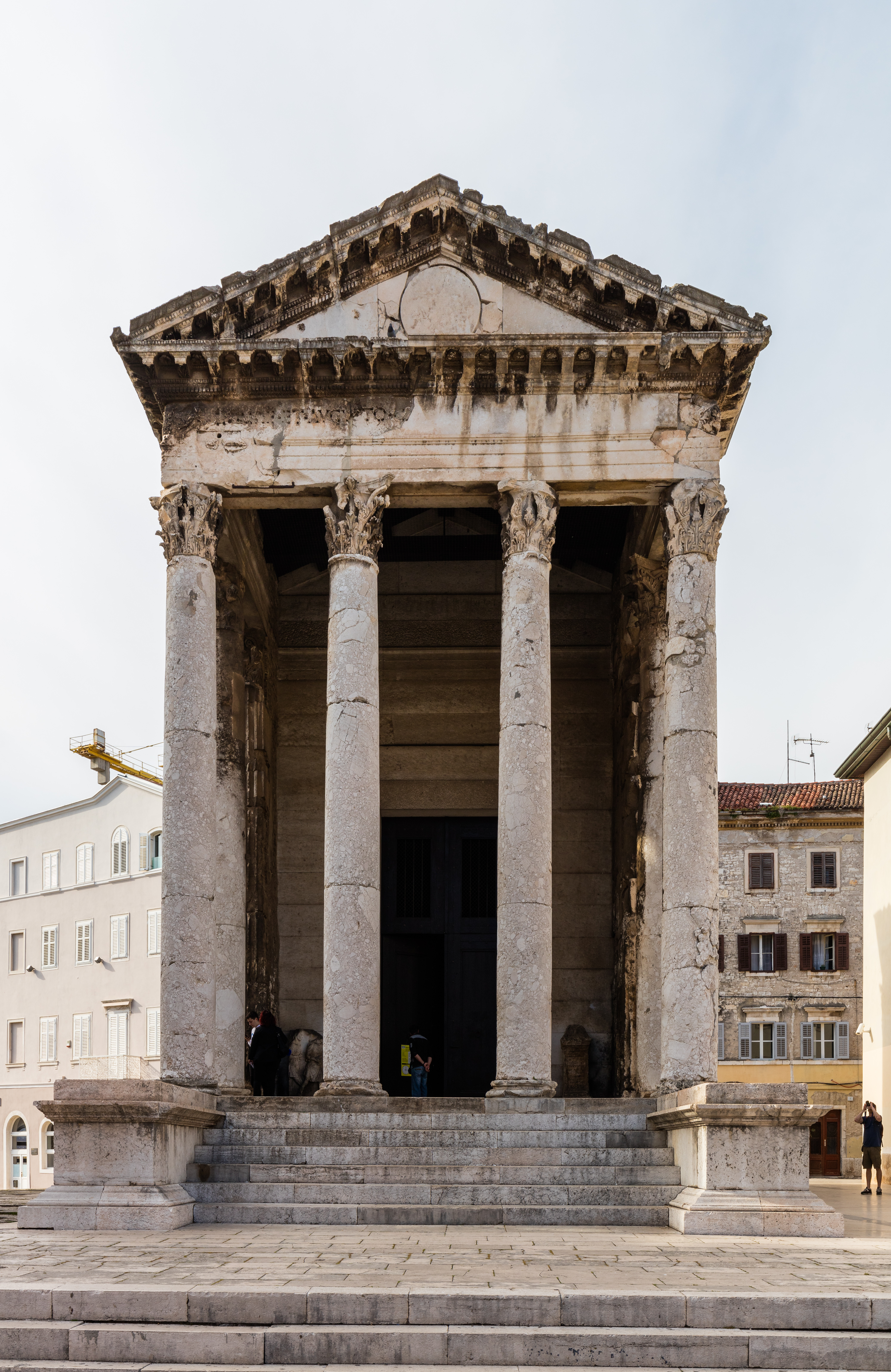 Temple of Roma and Augustus, Pula, Croatia. This is a a photo of a cultural heritage in Croatia with ID: Z-864